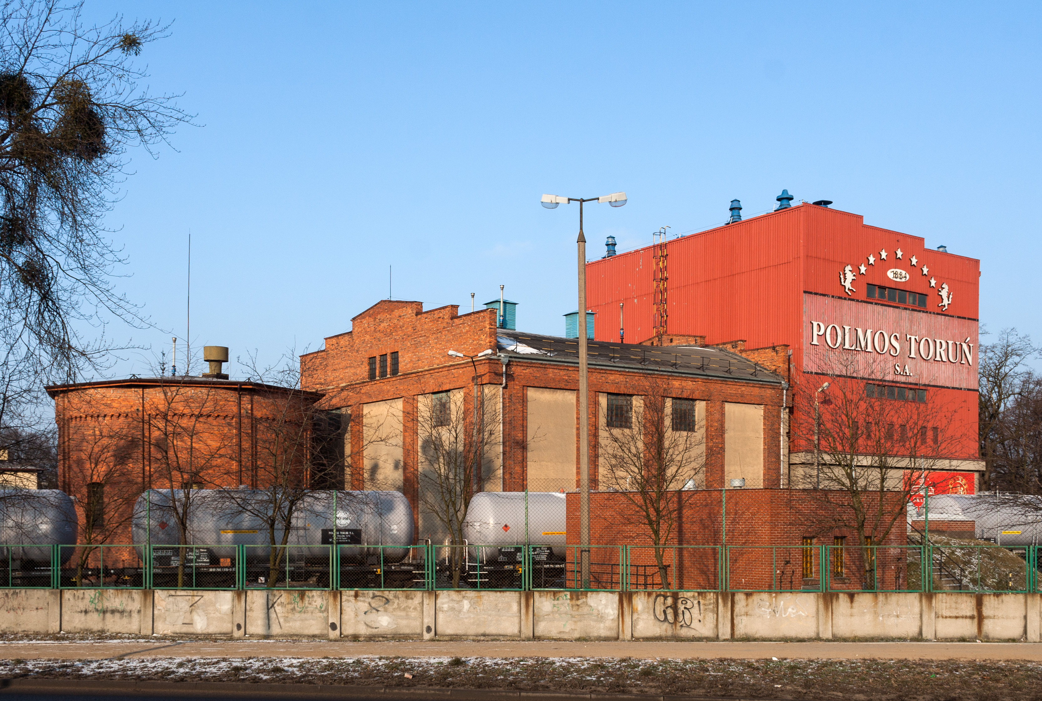 Polmos, Toruń.